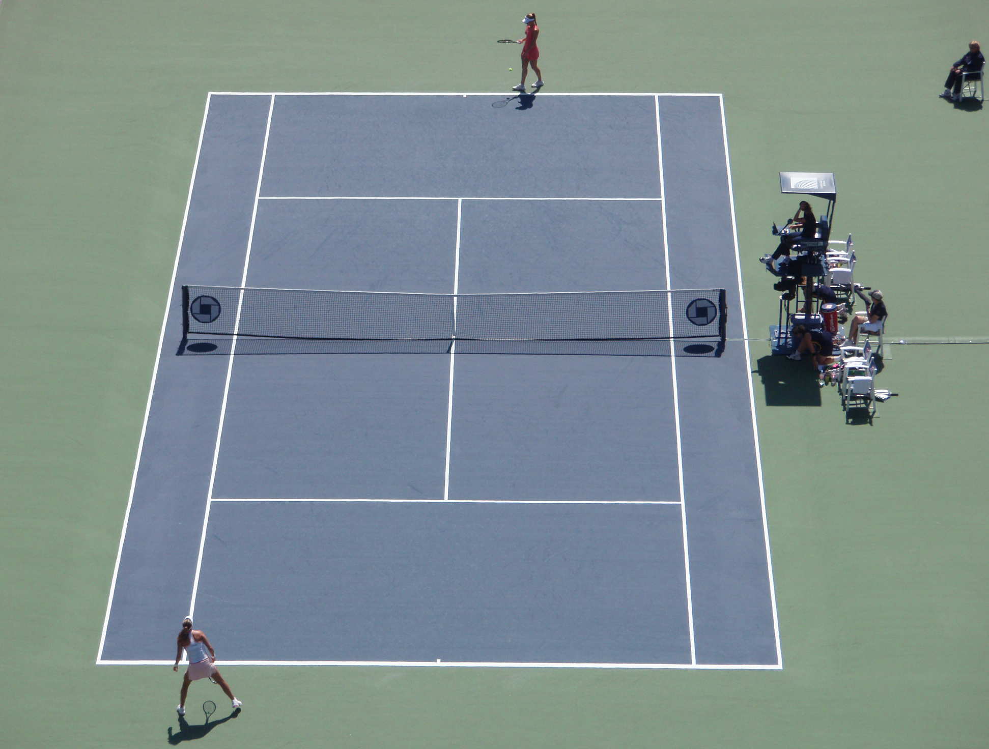 Shahar Peer(bottom) vs. Anna Chakvetadze at the 2007 US Open